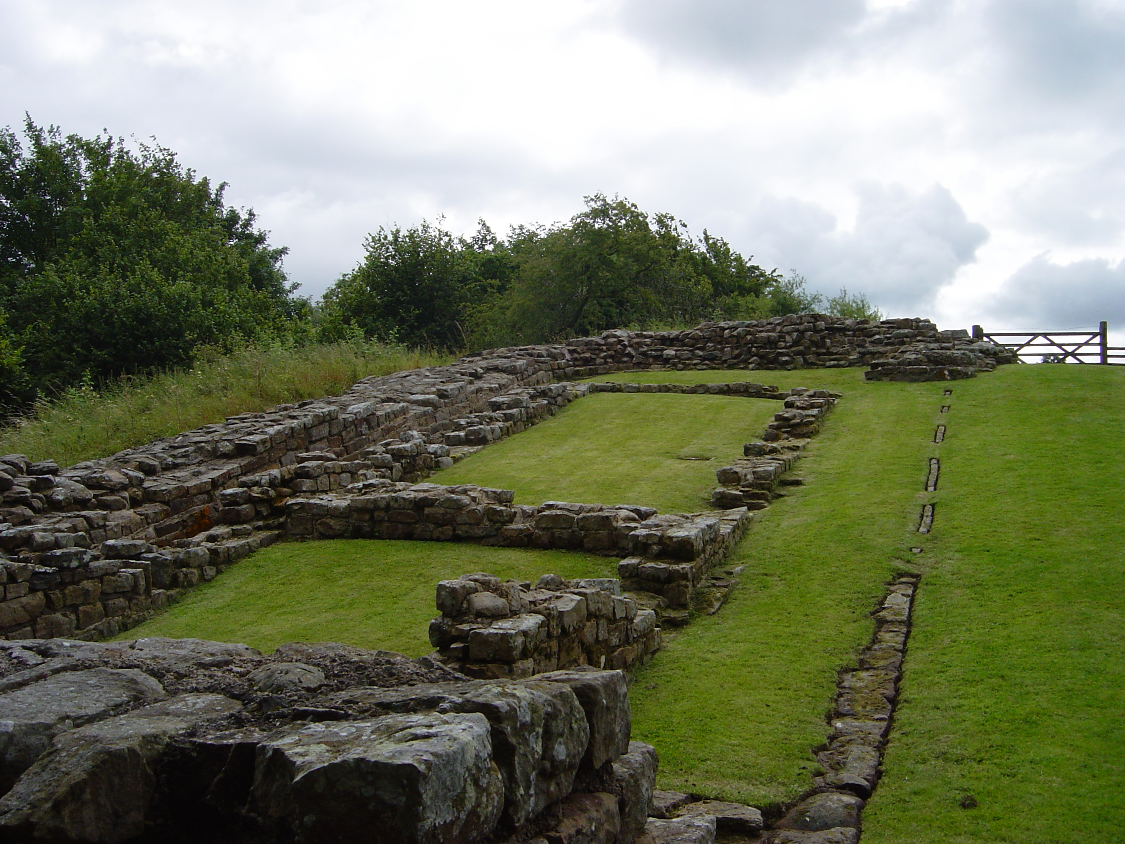 Taken by Simon Mills on the 10th August 2005